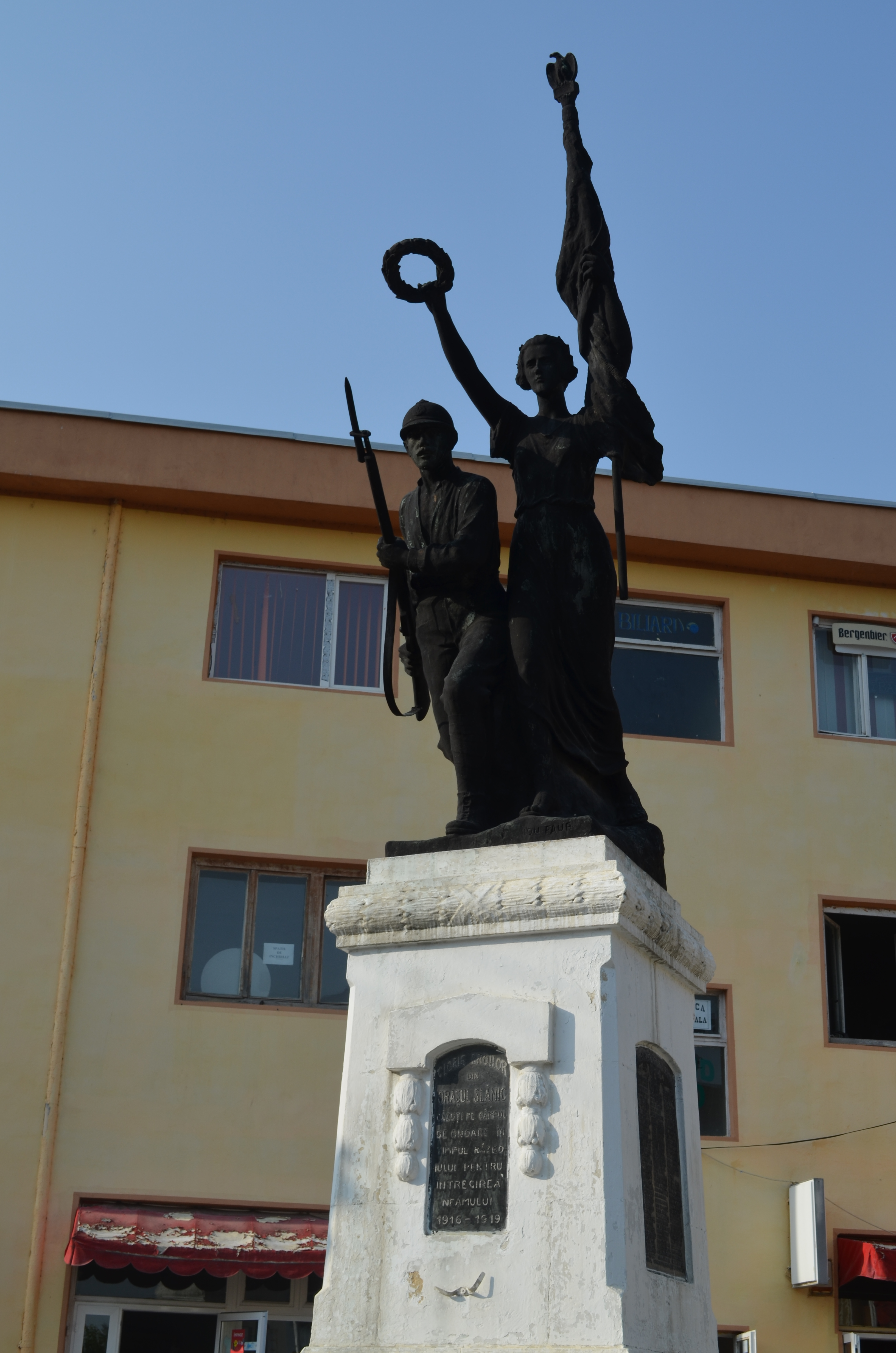 The Monument for the Heroes from the War for National Unity, Slănic, Prahova (built in 1929 by sculptor Ion Schmidt-Faur)